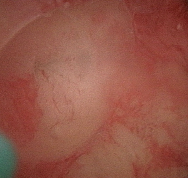 normal endometrium in the uterine cavity